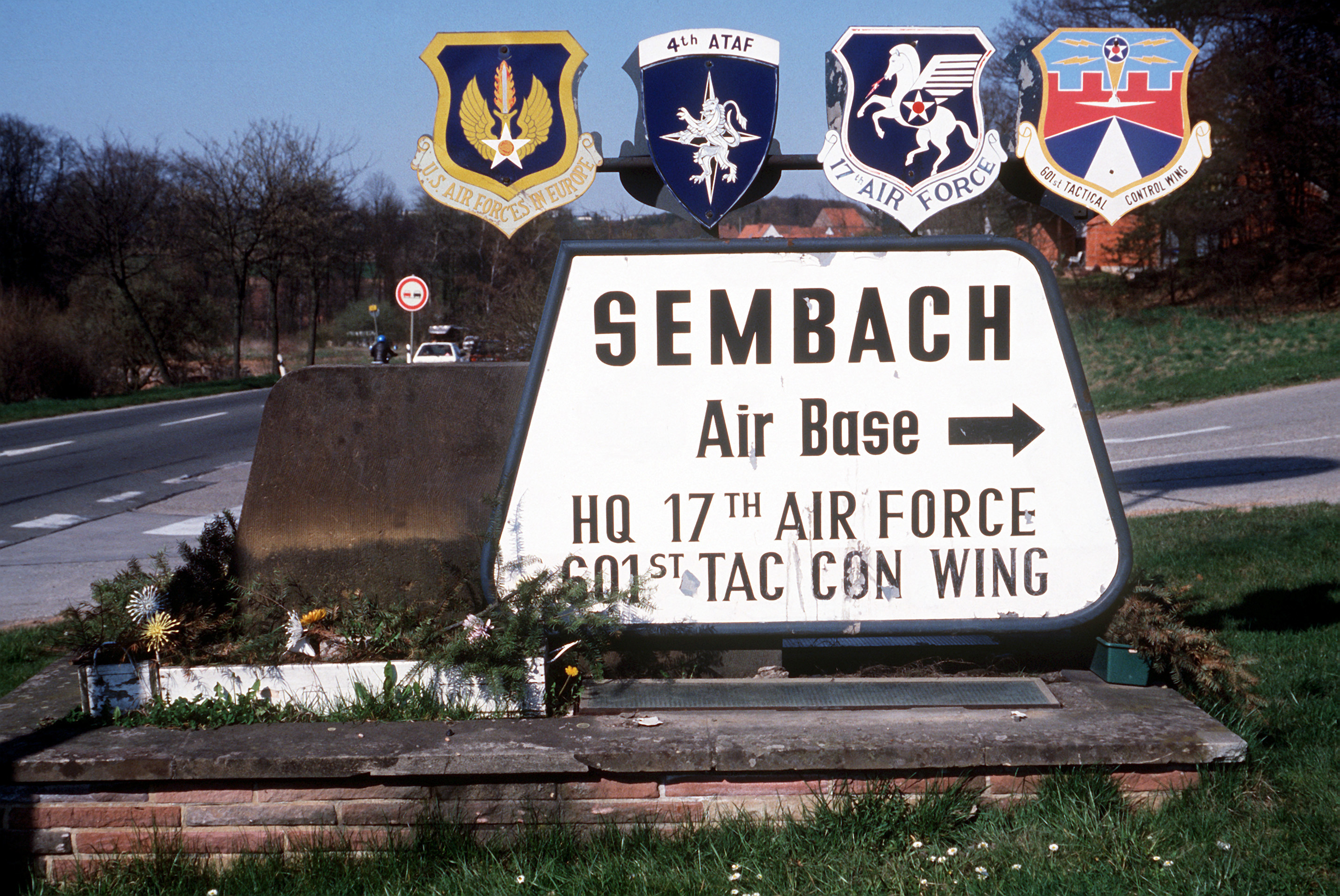 A road sign points the direction to Sembach Air Base, headquarters for the 17th Air Force and 601st Tactical Control Wing participating in Exercise UREX '82.